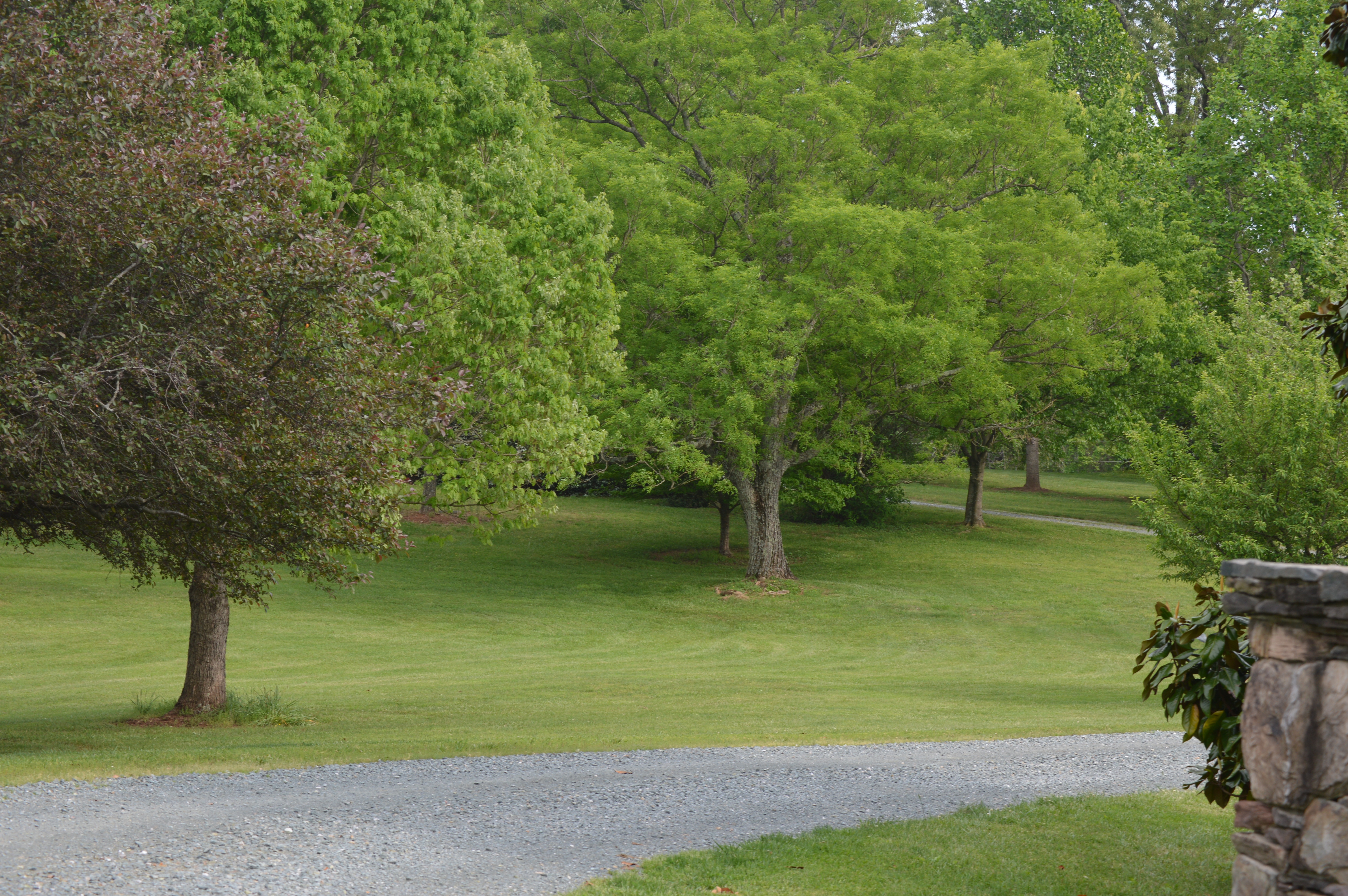 Driveway to the Red Hills estate, located on Polo Grounds Road northeast of Charlottesville in Albemarle County, Virginia, United States. The estate is listed on the National Register of Historic Places.